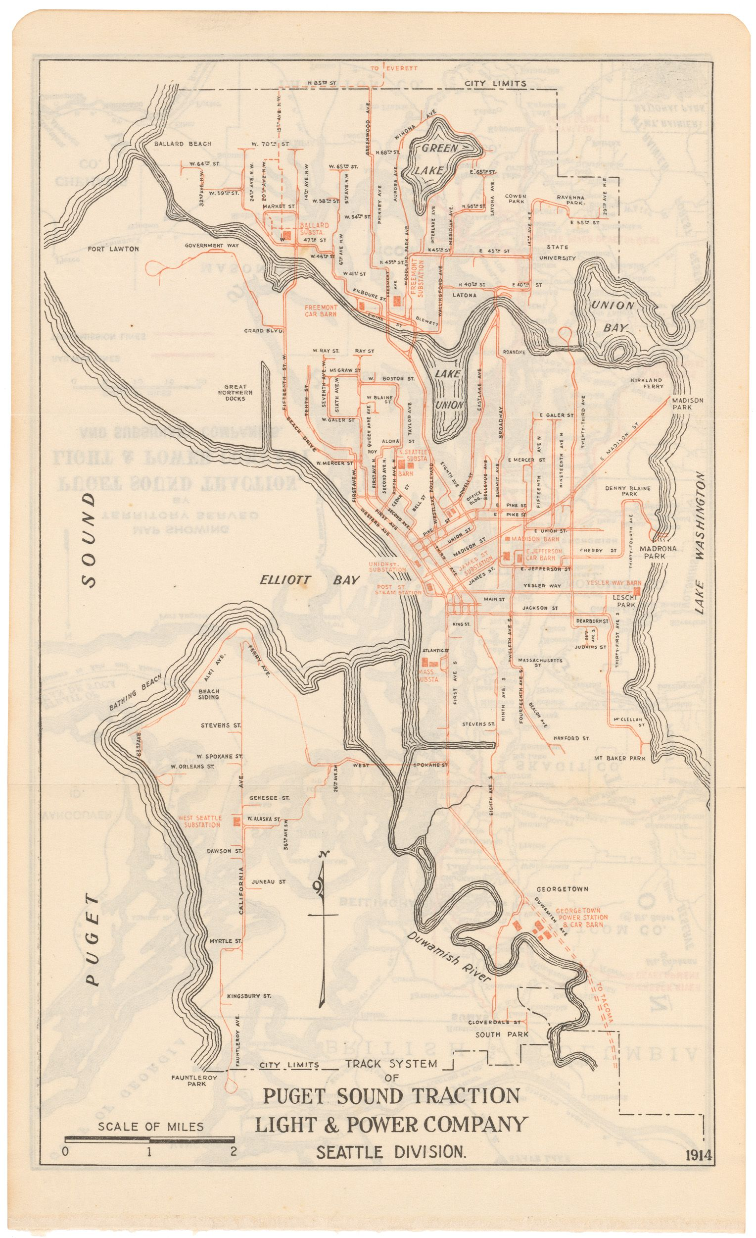 1914 track map of Puget Sound TLP Seattle Division, also showing carbarns and substations